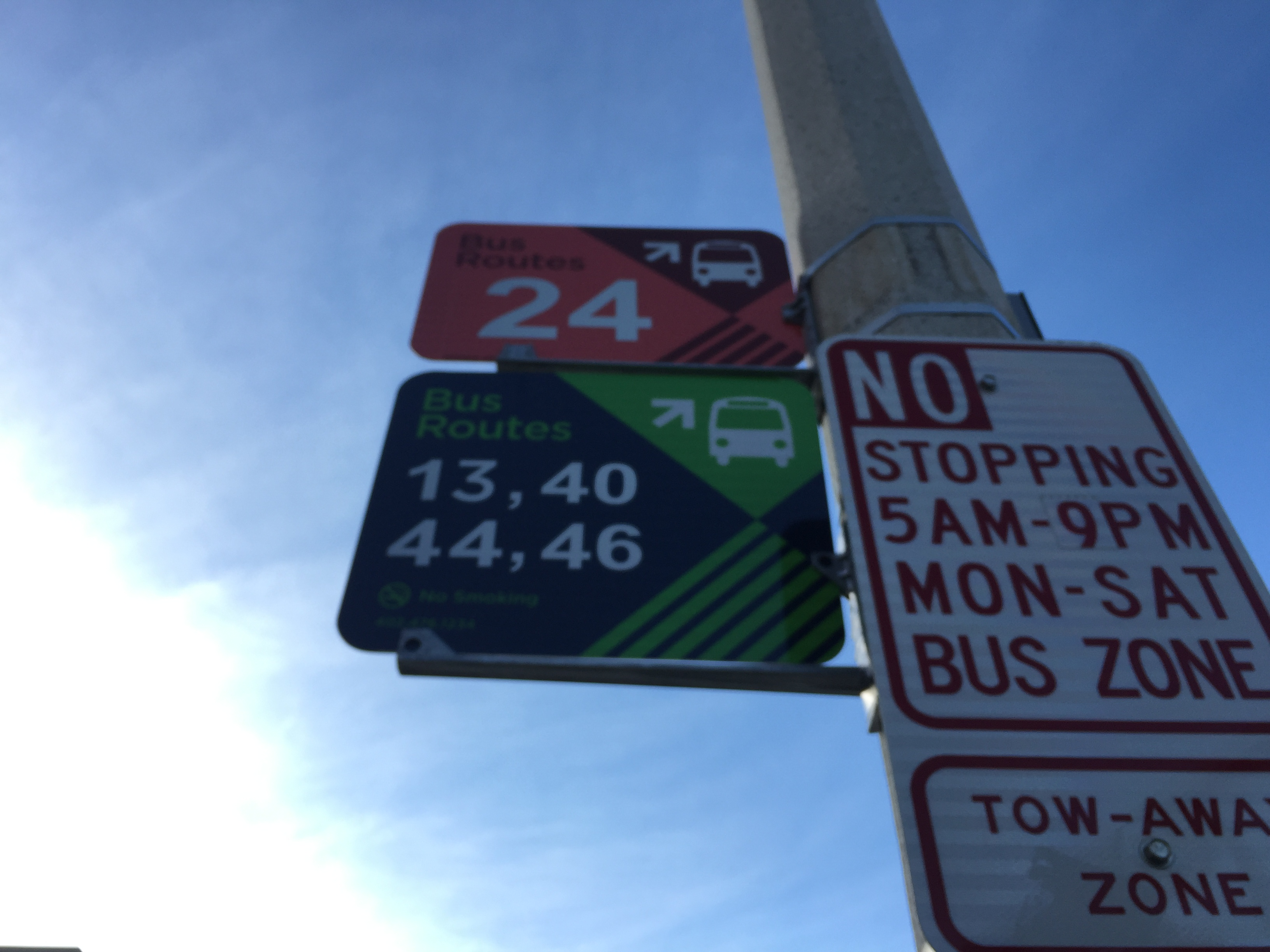 Blue and green bus stops are the standard bus stop for StarTran. Routes will only stop at these signs as of December 2016 after a one month grace period. Red signs indicate University of Nebraska-Lincoln service.